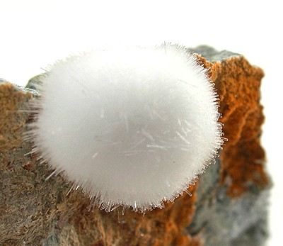 Artinite Locality: San Benito County, California, USA (Locality at ) Size: miniature, 4.7 x 2.1 x 2.1 cm Artinite on Desautelite When aesthetics are mentioned about a particular matrix specimen, they refer to things like this incredible snow white, cotton-like, artinite sphere, 1.7 cm across. Perched high on the contrasting matrix, the artinite is just breathtaking.